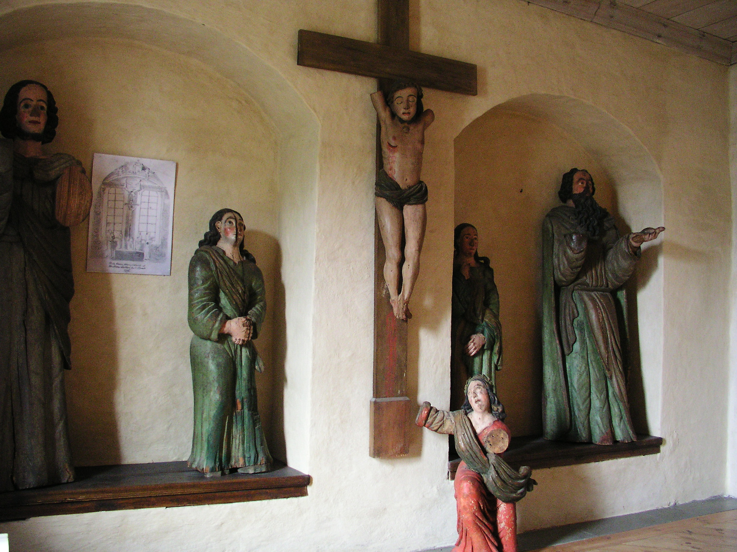 Vreta kloster. Museum in the church. The photo was taken by Håkan Svensson (Xauxa) the 28th September 2003.